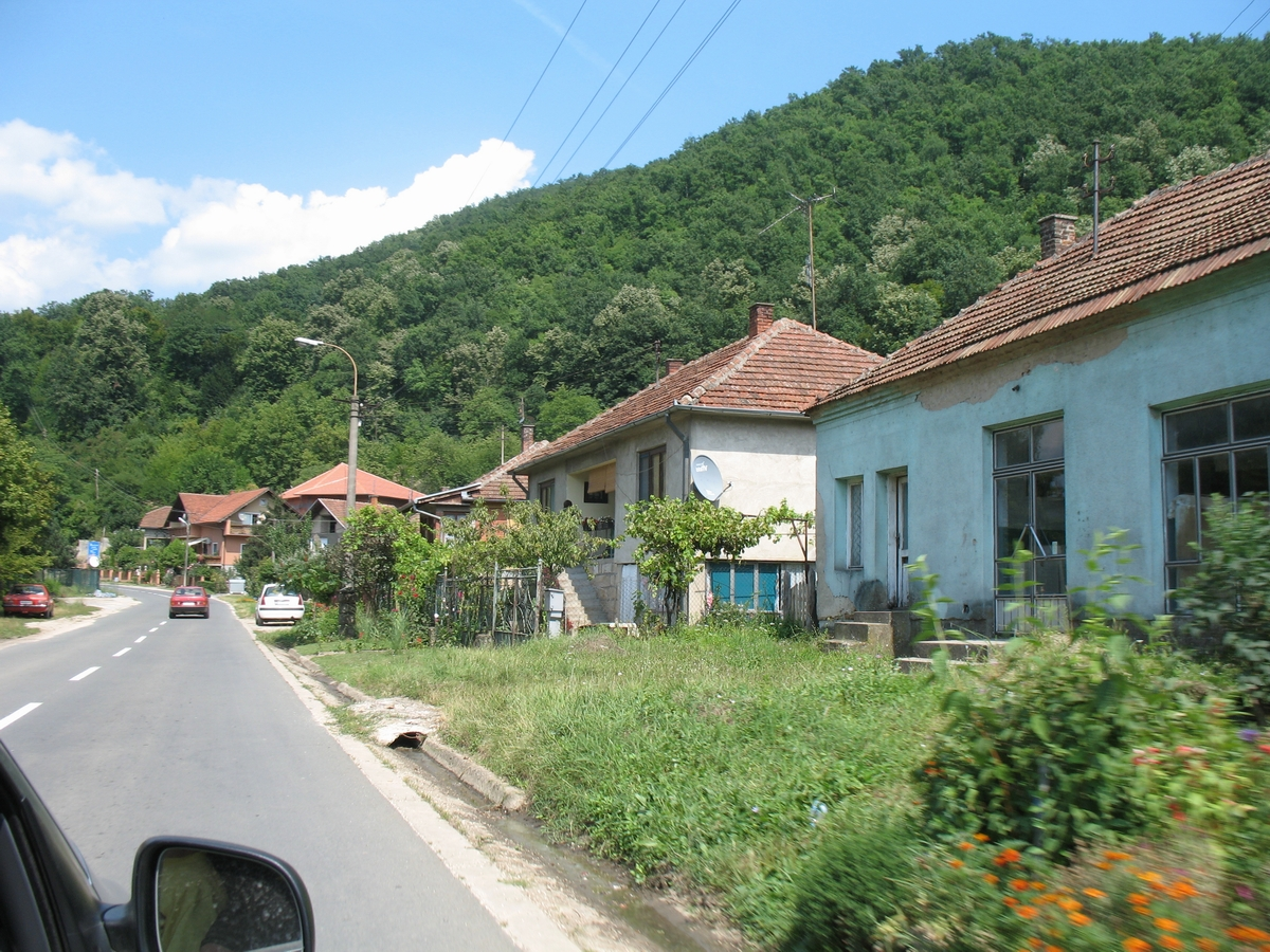 Mosna near Donji Milanovac in Majdanpek municipality, Serbia.